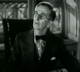 Cropped movie screenshot of Conlin in Second Chorus